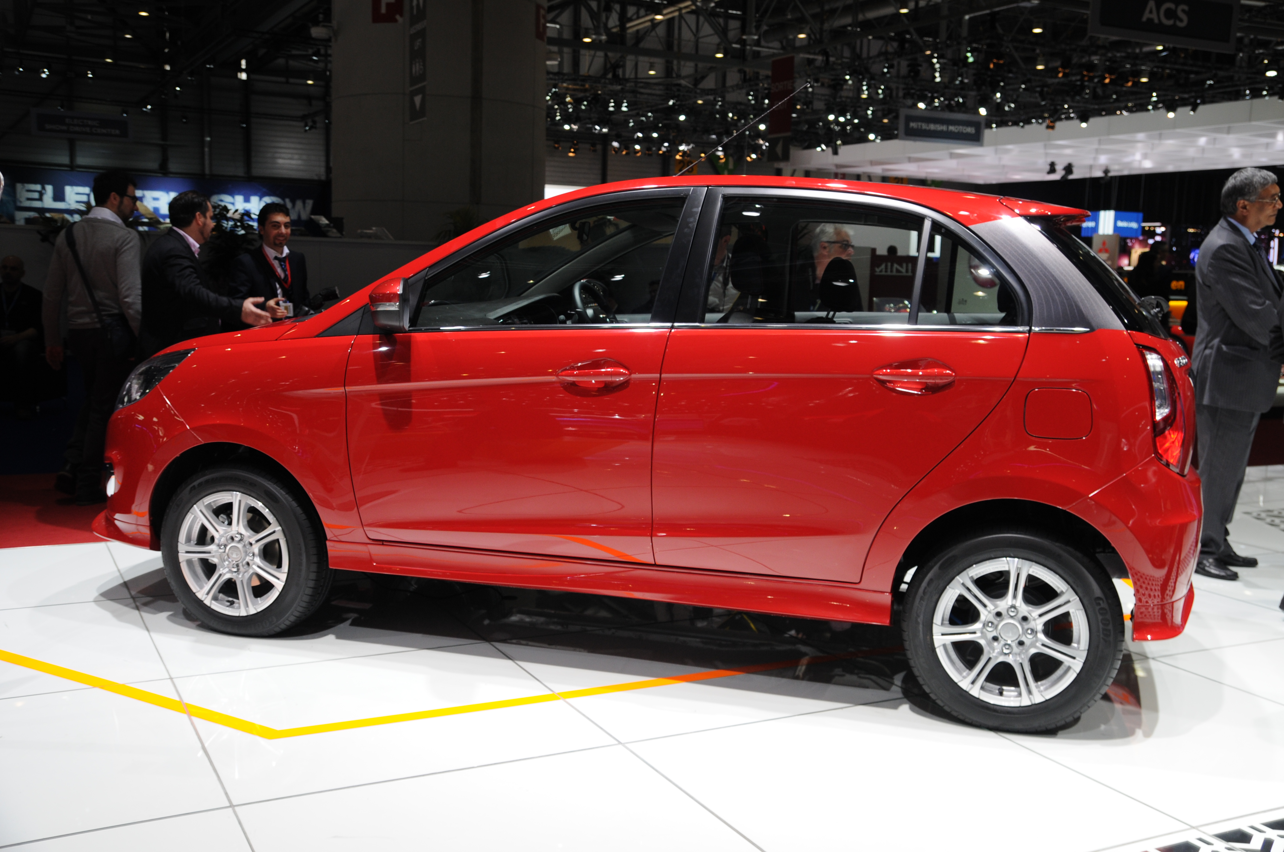 Geneva Motor Show 2014 (photo taken on the first press day)